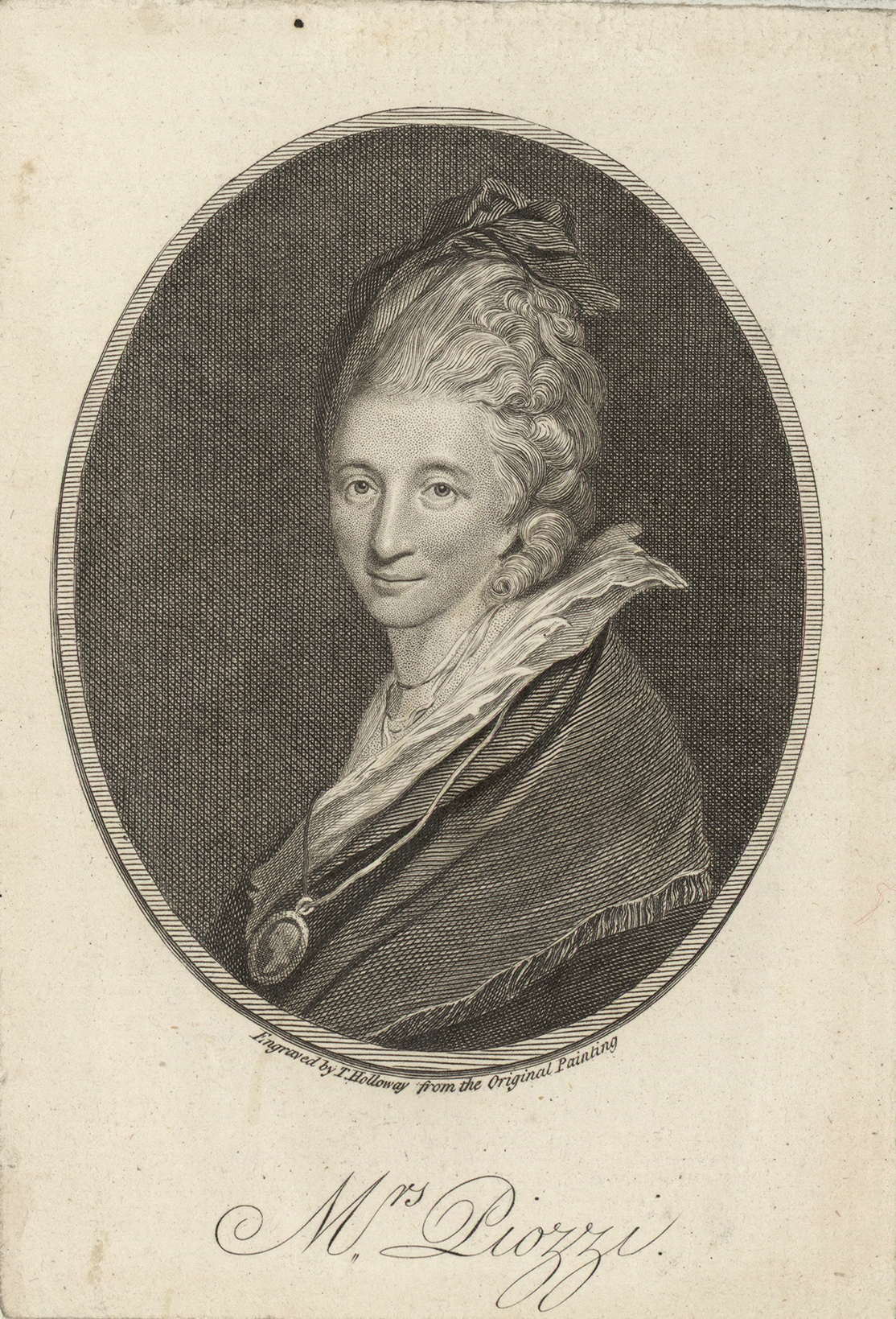 An image from a set of 8 extra-illustrated volumes of A tour in Wales by Thomas Pennant (1726-1798) that chronicle the three journeys he made through Wales between 1773 and 1776. These volumes are unique because they were compiled for Pennant's own library at Downing. This edition was produced in 1781. The volumes include a number of original drawings by Moses Griffiths, Ingleby and other well known artists of the period. Thomas Pennant (1726-1798)